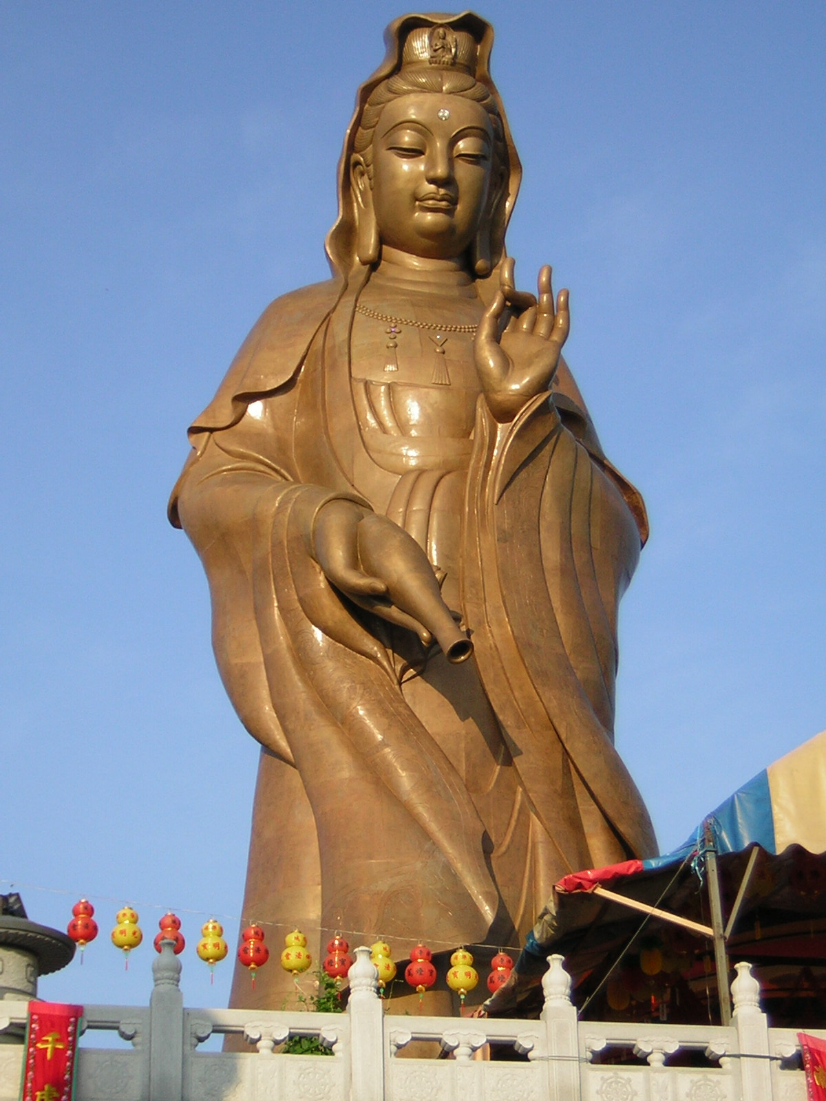 The Boddhisattva of Universal Compassion at the Ke Lok Si Temple in Penang, Malaysia.